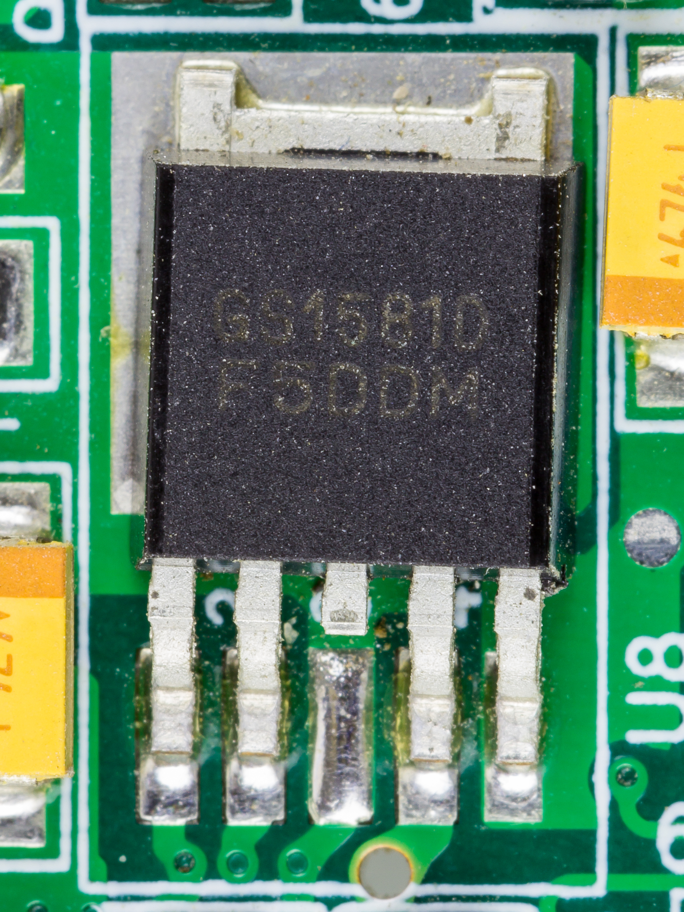 Yakumo Notebook 536S - Globaltech GS1581D - Dual Input Dropout Regulators. Package: TO-252-5